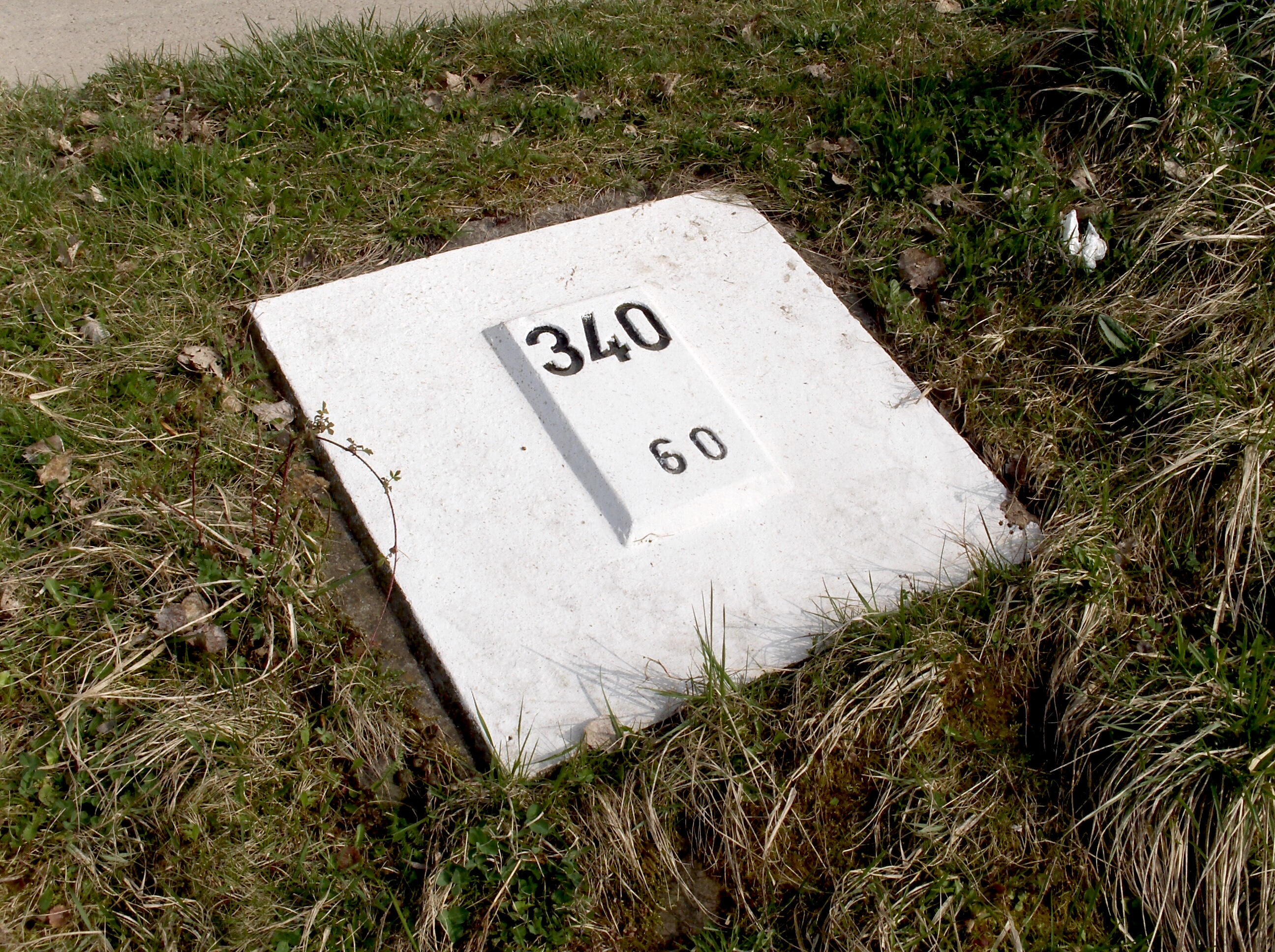 Mark of groyne at the river Rhine near km 372